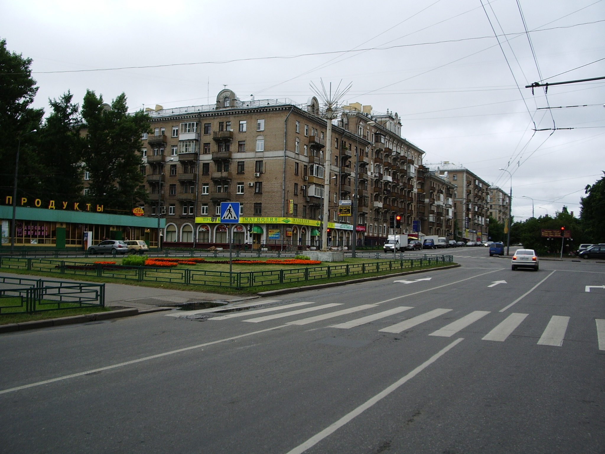 Novopeschanaya street in Moscow. Houses 19, 21, 23